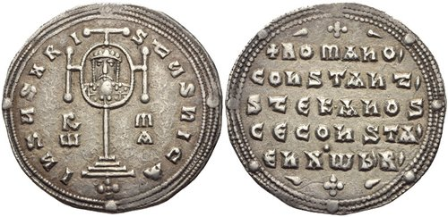 Constantine VII Porphyrogenitus, with Romanus I, Stephen, and Constantine. 913-959. AR Miliaresion (24mm, 2.72 g, 12h). Constantinople mint. Struck 931-944. IhSЧS XRI-SτЧS nICA, cross potent on three steps, oval medallion at center with portrait of crowned facing bust of Romanus; R/Ш-m/A across field, pelleted cross below / + ROmAnO’/COnSτAnτ’/SτЄFAnOS/CЄ COnSτA’/Єn XШ Ь’ R’ in five lines; above and below, pelleted cross with wedge to left and right. DOC 20; SB 1755. Near EF, toned.